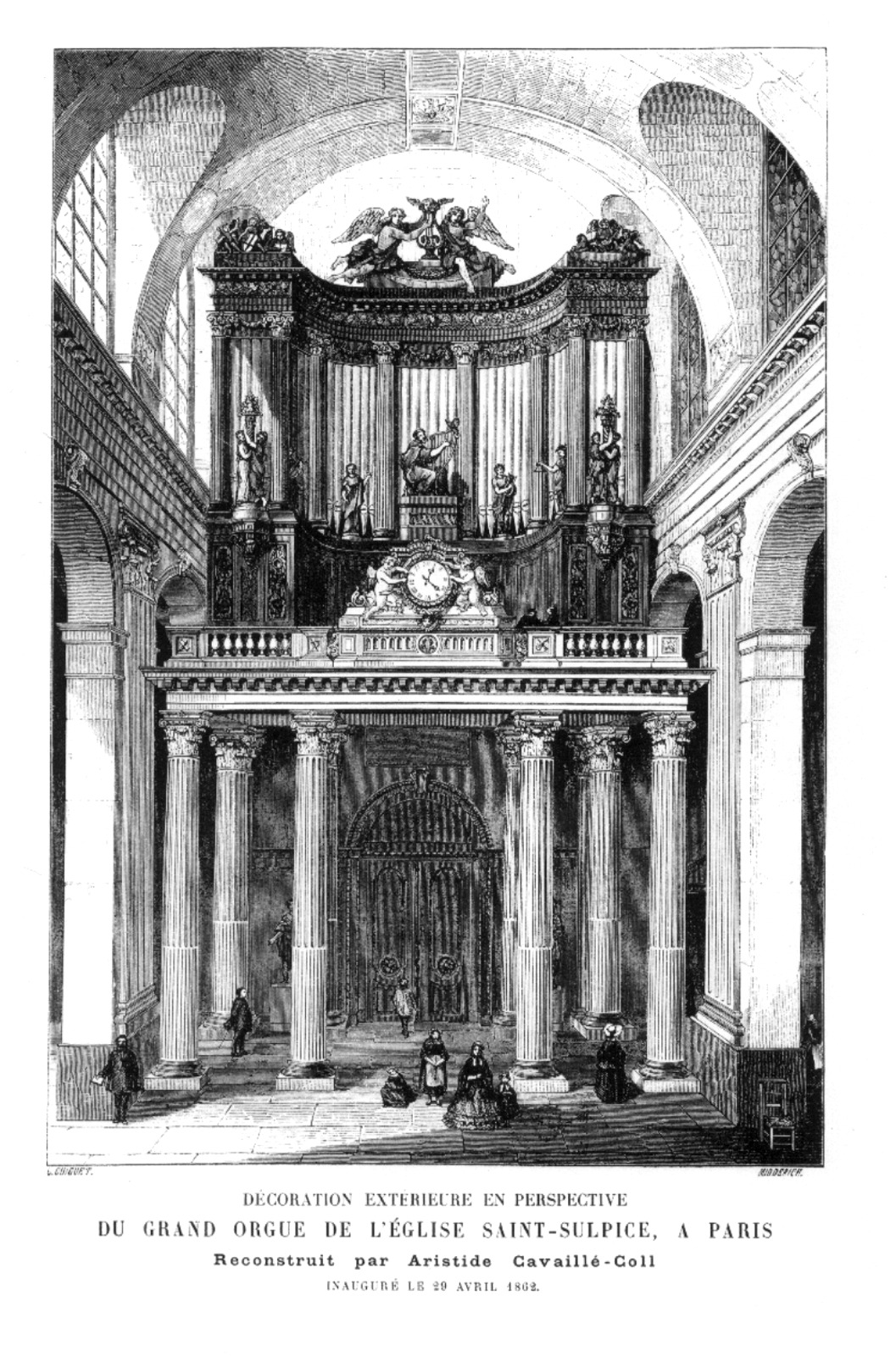 Engraving of the Cavaillé-Coll organ in St. Sulpice at its inauguration in 1862